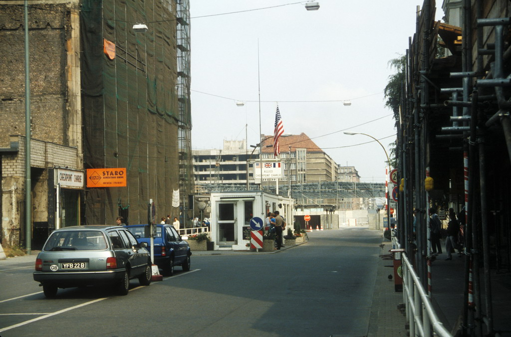 Checkpoint Charlie at Friedrichstraße/Zimmerstraße, West Berlin, summer of 1985